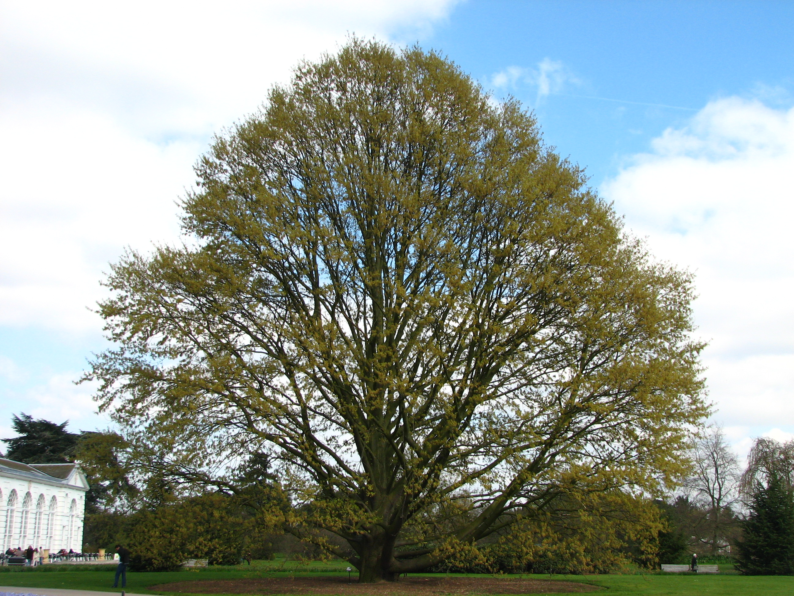 Quercus castaneifolia taken at Kew Gardens (London, UK)